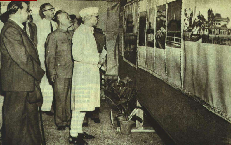 October 1951 Chinese cultural delegation to visit India - Jawaharlal Nehru